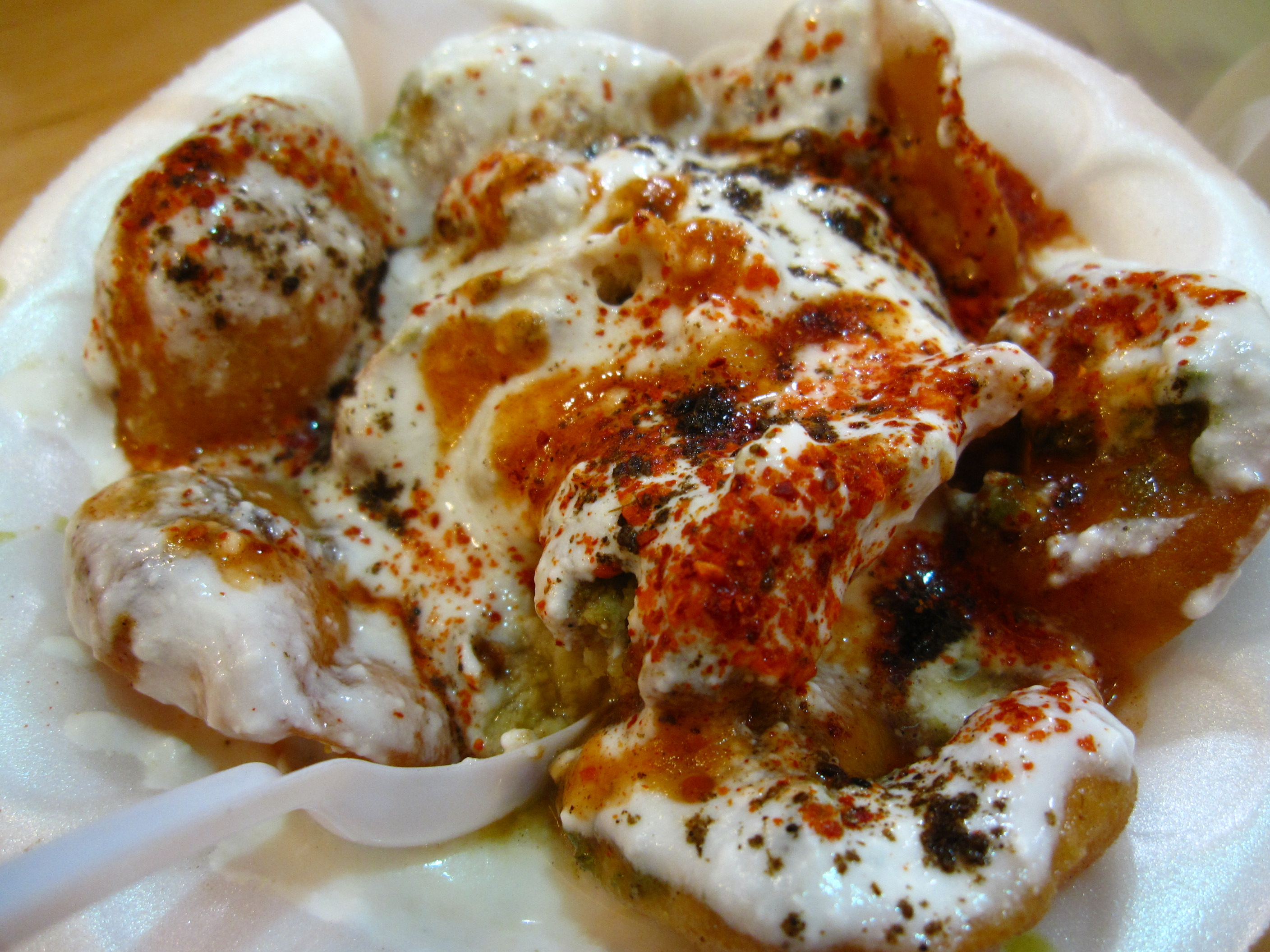 Really yummy & spicy. At Centre One in Vashi, Navi Mumbai